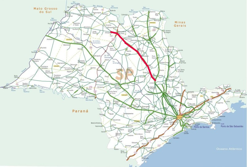 Part of SP-310: Rodovia Washington Luís